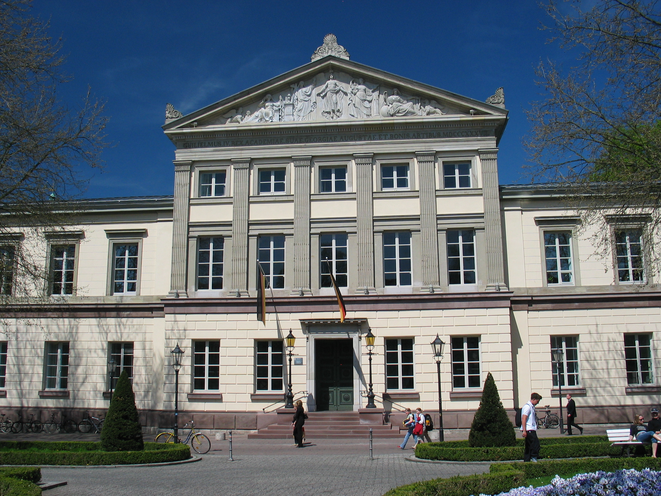 Great Hall (Aula) of Göttingen University, Wilhelmsplatz, Göttingen, Germany.